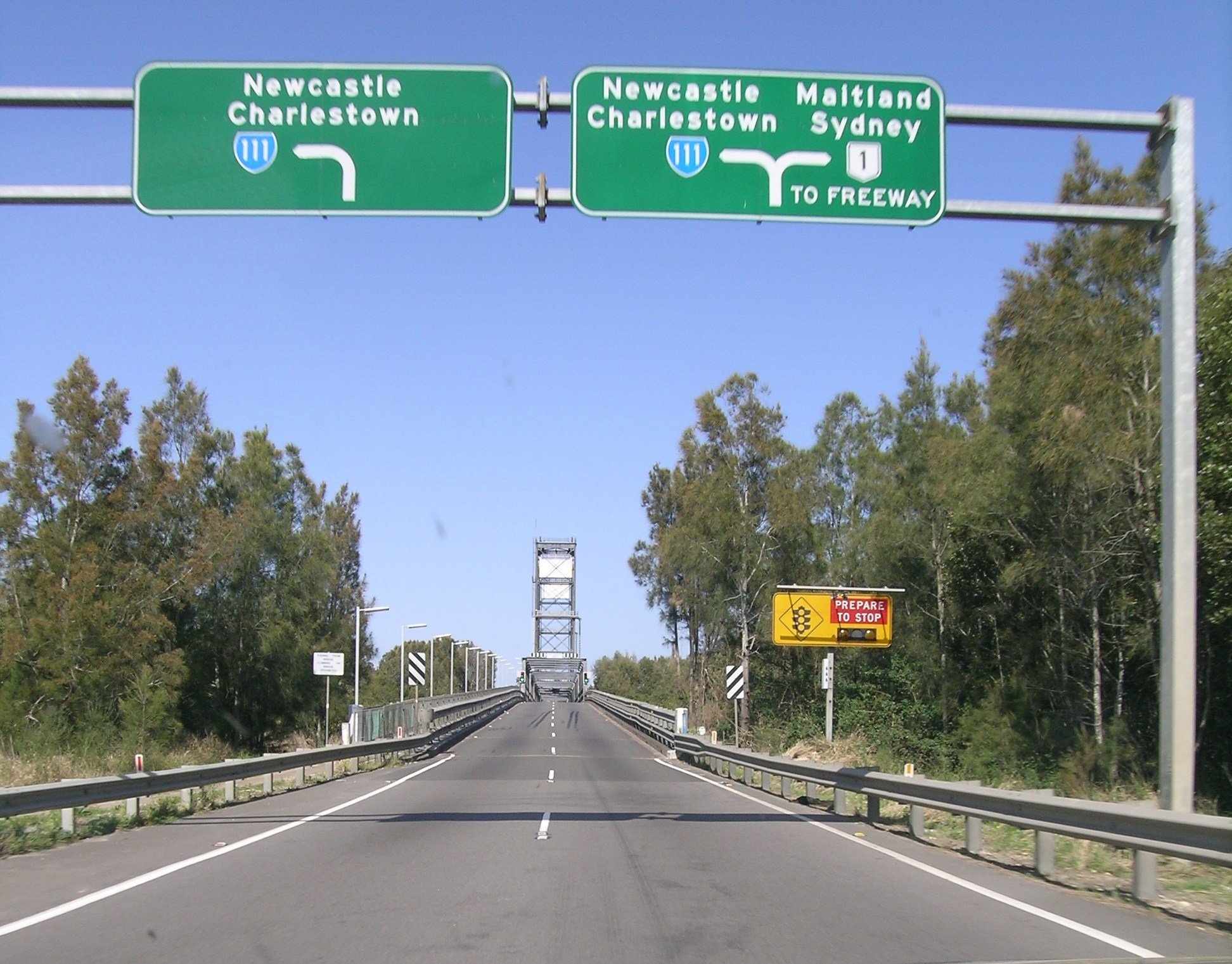 The southbound Hexham Bridge on the Pacific Highway in New South Wales, Australia, is the largest of few surviving lift span bridges in New South Wales and is still in working order. The bridge, which is one of two bridges over the Hunter River at this point, is seen from the northern approach in Tomago, New South Wales. Both of the Hexham bridges are actually in the suburb of Tarro, while the northern and southern approaches are in Tomago and Hexham respectively.NSW Department of Lands - Spatial Information Exchange